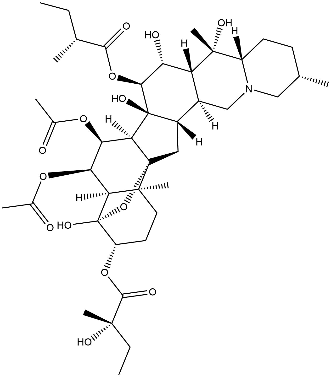 ChemDraw structure of the alkaloid Protoveratrine A.